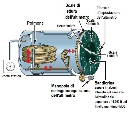 Internal workings of an altimeter.